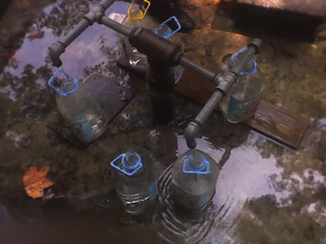 Water being harvest from the God's Acre Healing Spring in Blackville, South Carolina.